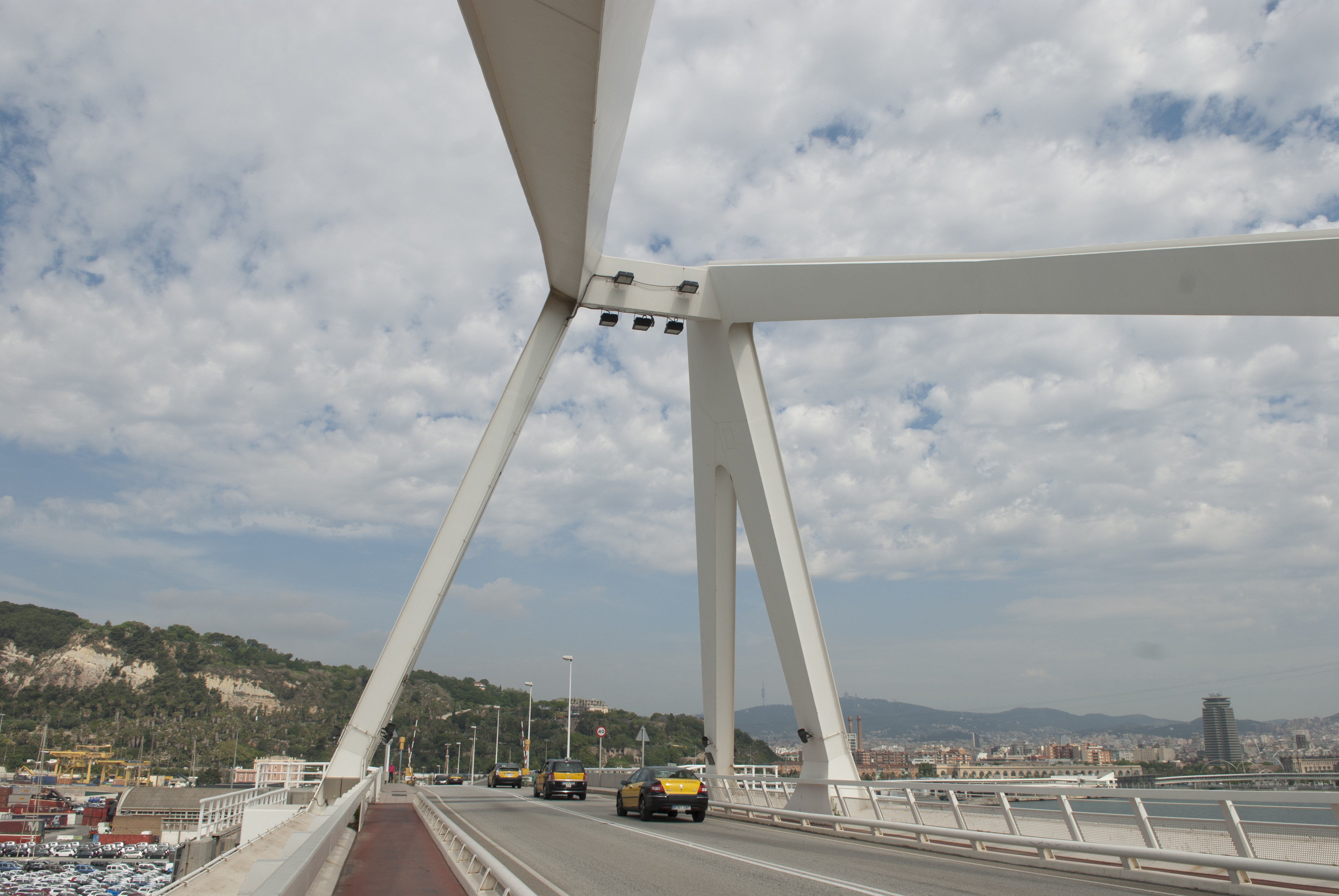 Photo of Porta d'Europa